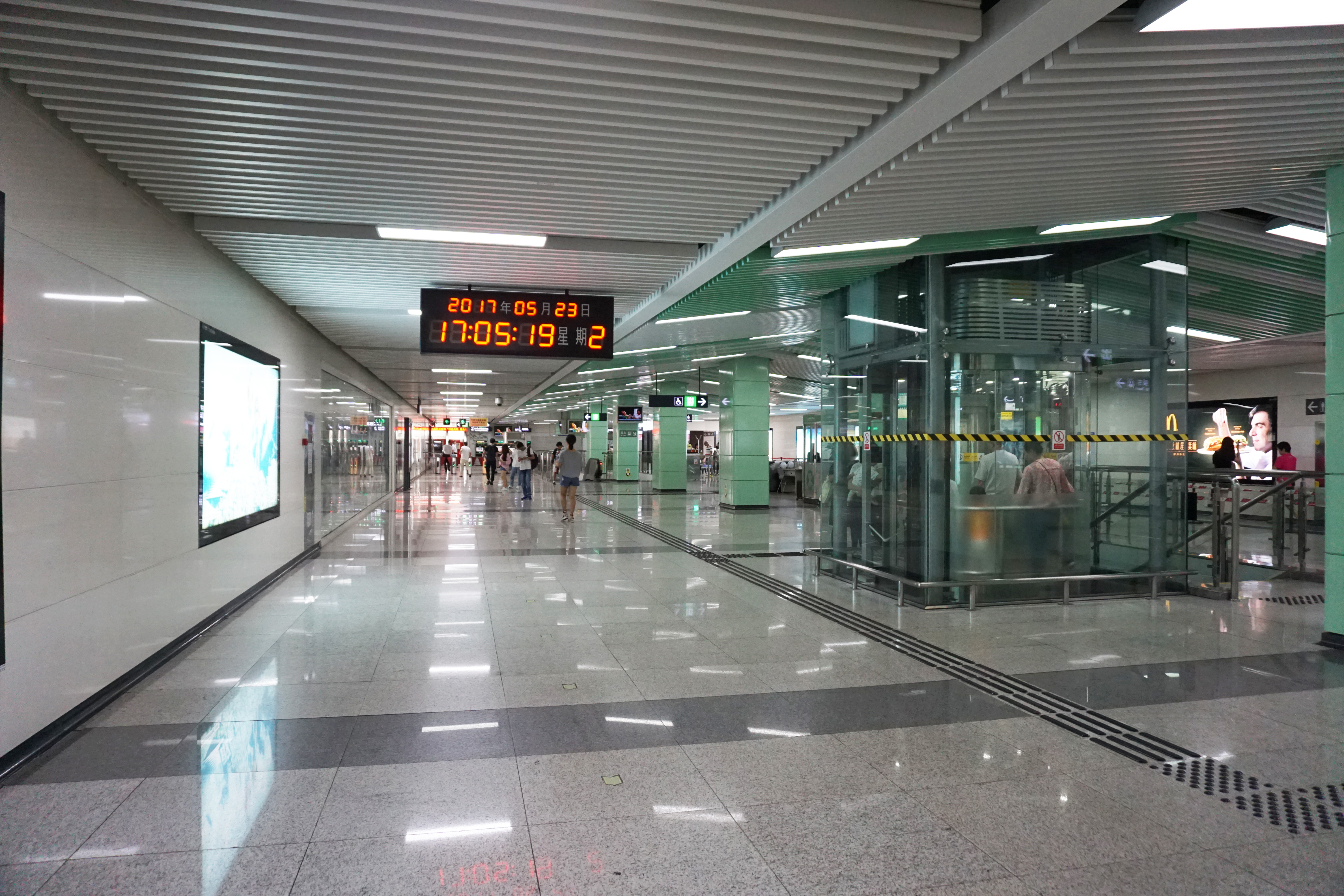 Haiyue Station in Nanshan District, Shenzhen.